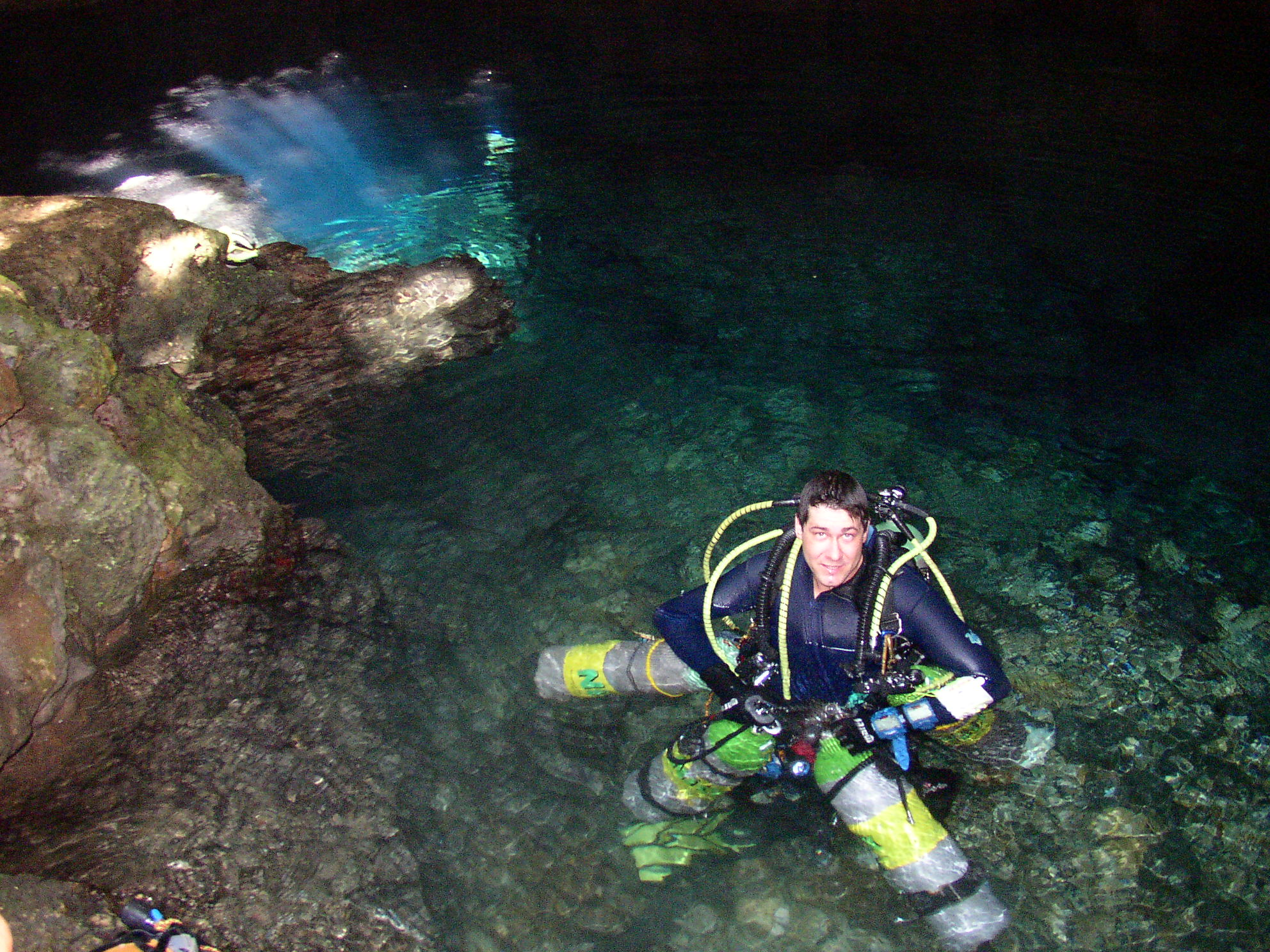 La Sirena Cave, Big Pool